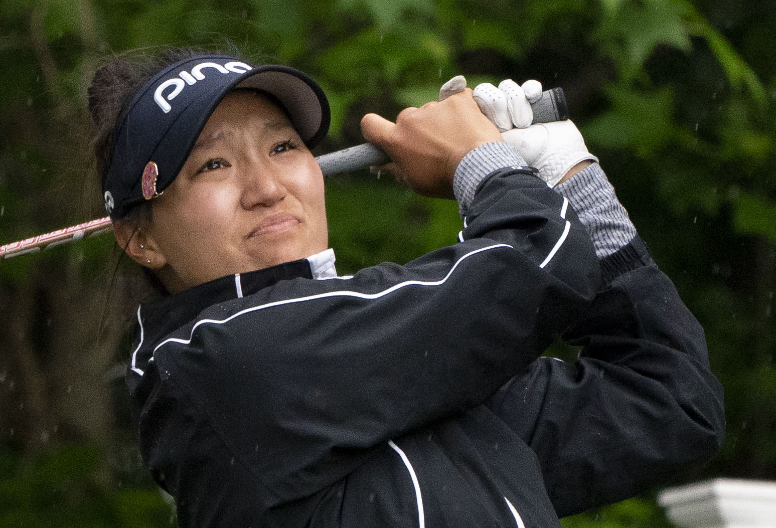 American professional golfer Annie Park at the 2018 LPGA Kingsmill Tournament.